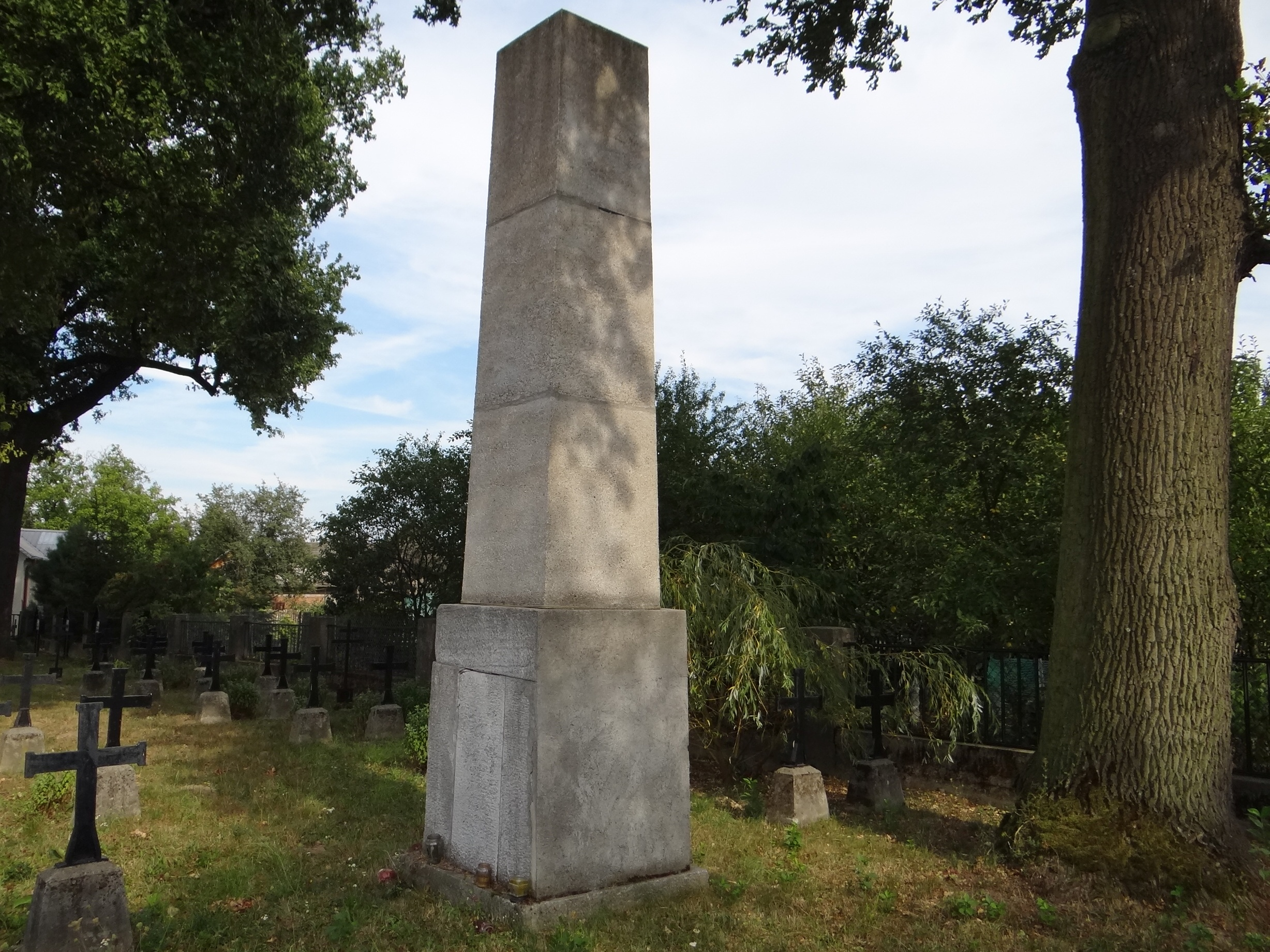 World War I Cemetery nr 259 in Biskupice Radłowskie